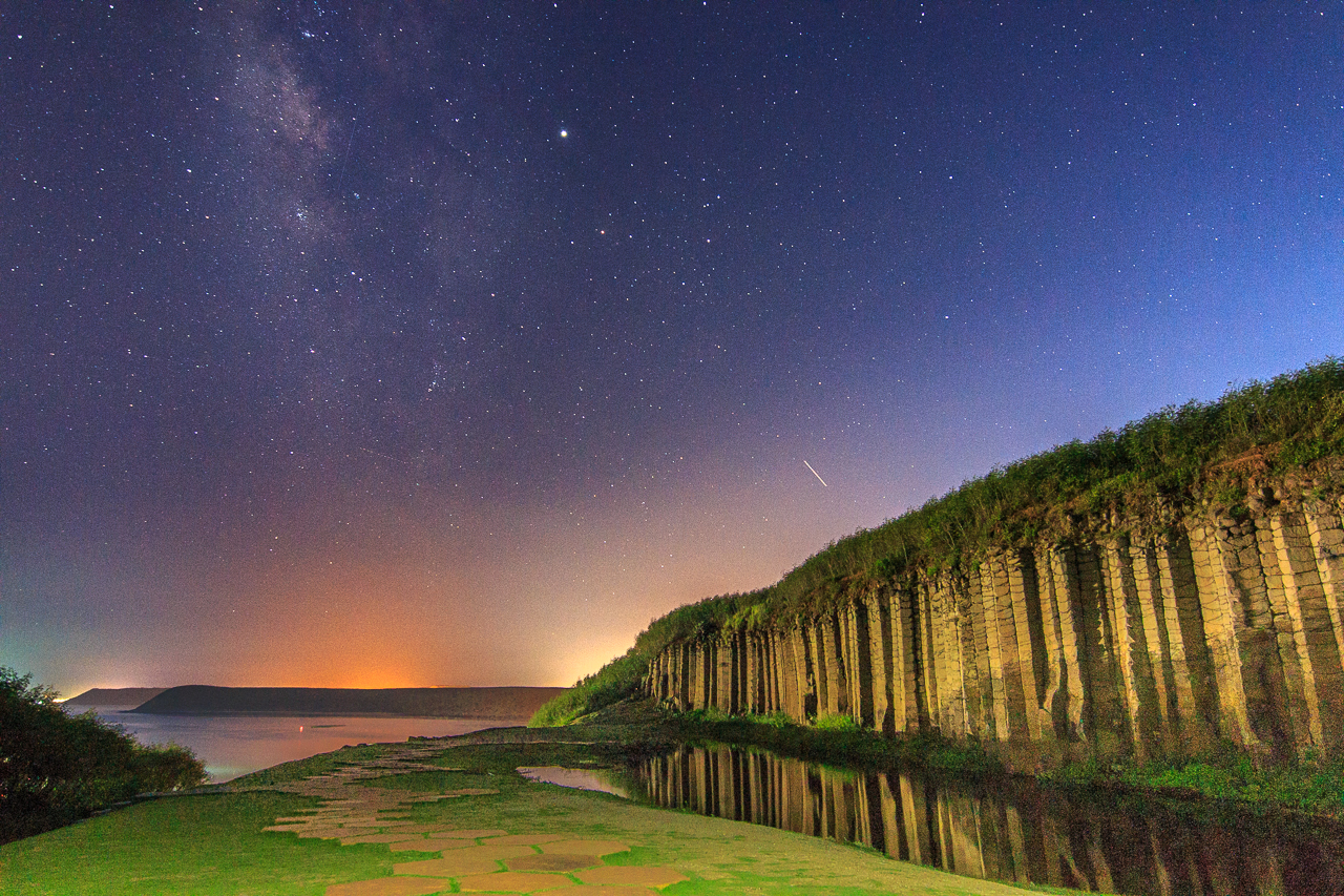 Star sky over Daguoye Columnar Basalt.